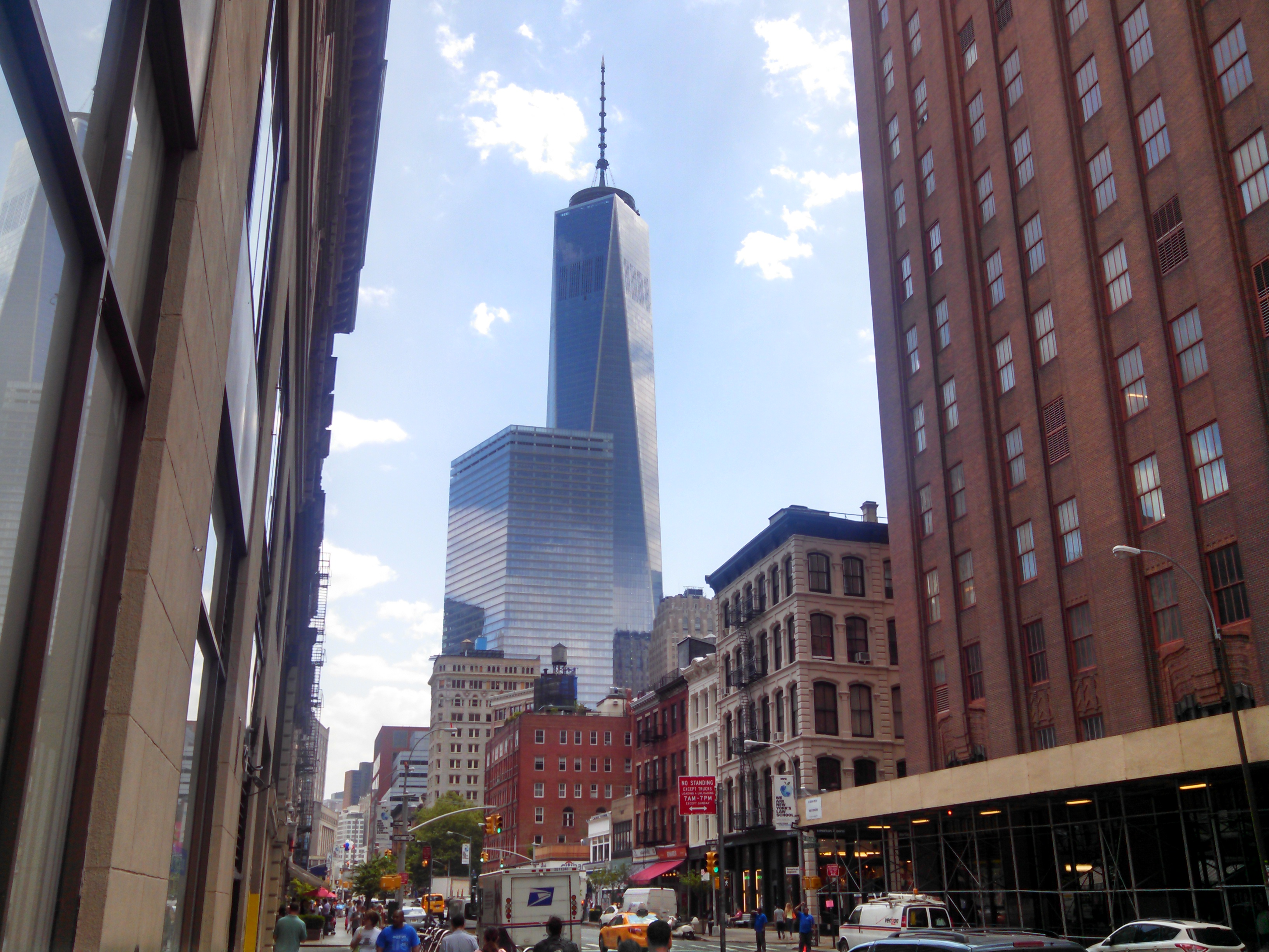 One World Trade Center, Manhattan New York